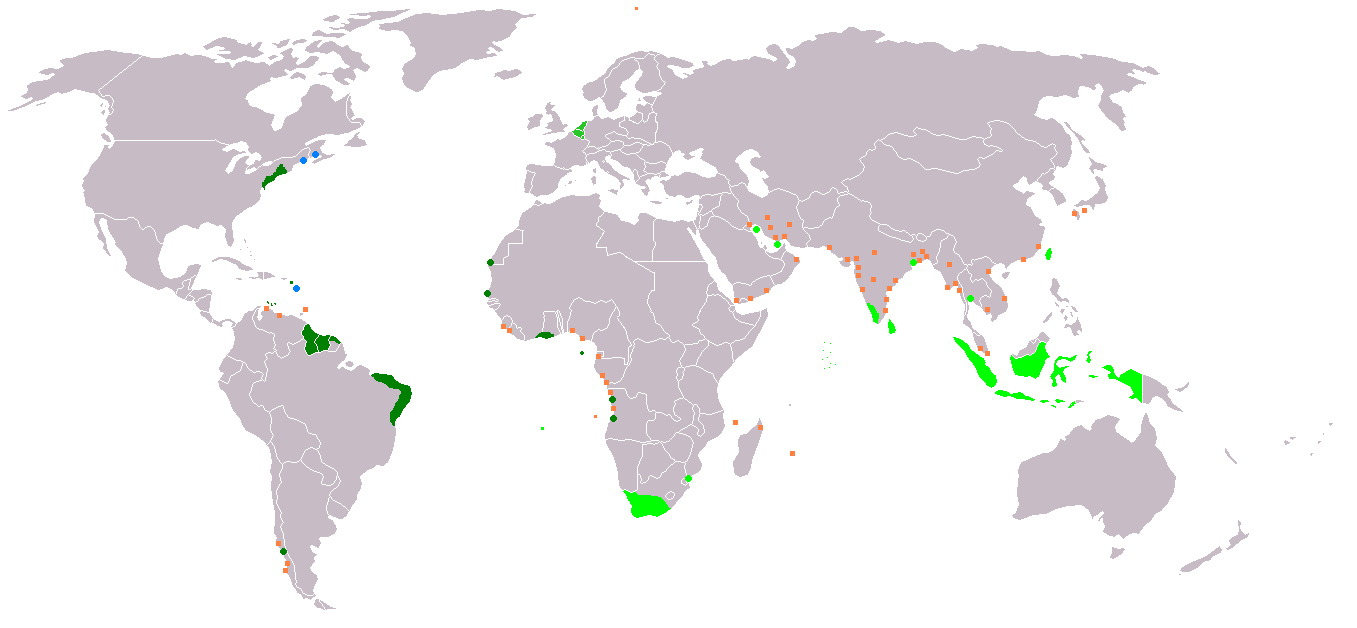 Legend: Dark Green:Dutch West India Company Light Green:Includes the Dutch East Indies at their greatest extent in the early 20th century *Circle:Fort Orange Square:Trading Post Blue:Fort briefly occupied